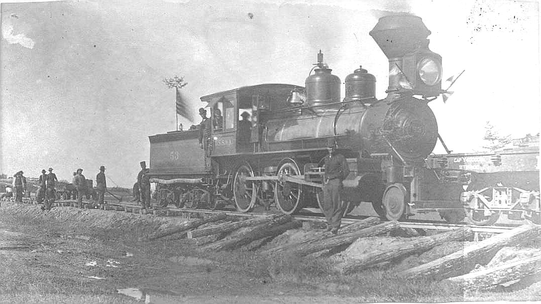 (Converted to B&W from the cyanotope image by the uploader). Identifier AK01a020.jpg Title DSS&A Railroad Engine #53 Creator Rutherford, James Subject Railroads ; Duluth, South Shore, & Atlantic Railroad Description Cyanotype photograph of engine No. 53 of the Duluth South Shore & Atlantic Railroad, which was the first engine to the Sault in 1887. Publisher Bayliss Public Library (Sault Ste. Marie, Mich.) ; Superiorland Library Cooperative (Marquette, Mich.) Contributors Fowle, Otto Date 1887 DateDigital 9/21/2003 Type Image/photograph Format image/jpeg ; 542 KB Source Electronic reproduction of: Photograph of DSS&A Railroad Engine #53 ; 10 x 18 cm. Original held at the Bayliss Public Library, Sault Ste. Marie, Mich. Language eng Coverage 1880-1889 CoverageSpatial Sault Ste. Marie (Mich) Rights Digital materials in the Upper Peninsula Digitization Center collections are either in the public domain, according to U.S. copyright law, or permission has been obtained from rights owners. The digital version and supplementary materials are available for all educational uses worldwide. For further information contact the Superiorland Library Cooperative staff .